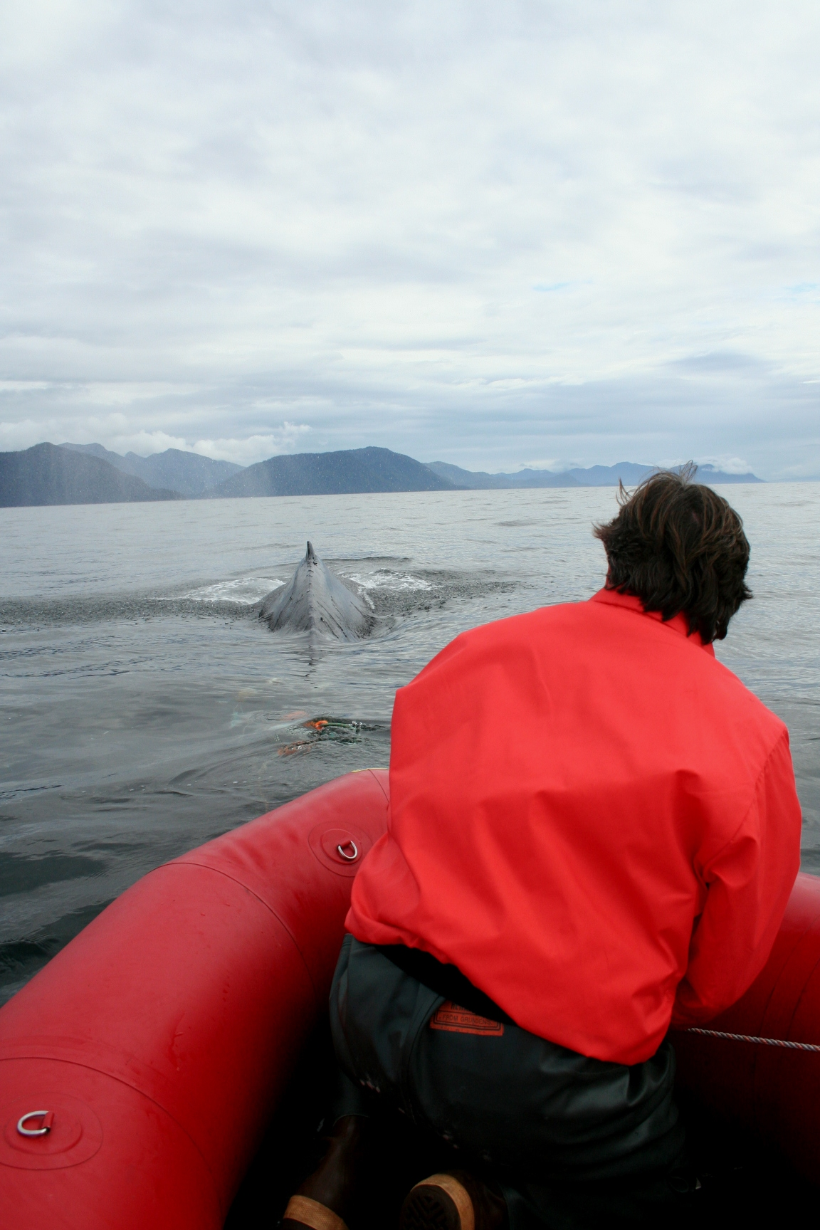 Disentanglement expert Ed Lyman prepares to attempt rescue of a satellite-tagged humpback whale entangled in gillnet. Alaska, Lower Chatham Strait. 2006 August 29.